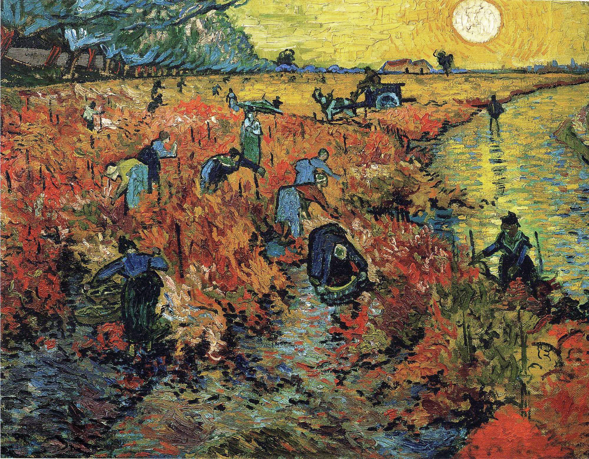 the only painting Vincent van Gogh is certainly known to have sold during his lifetime.